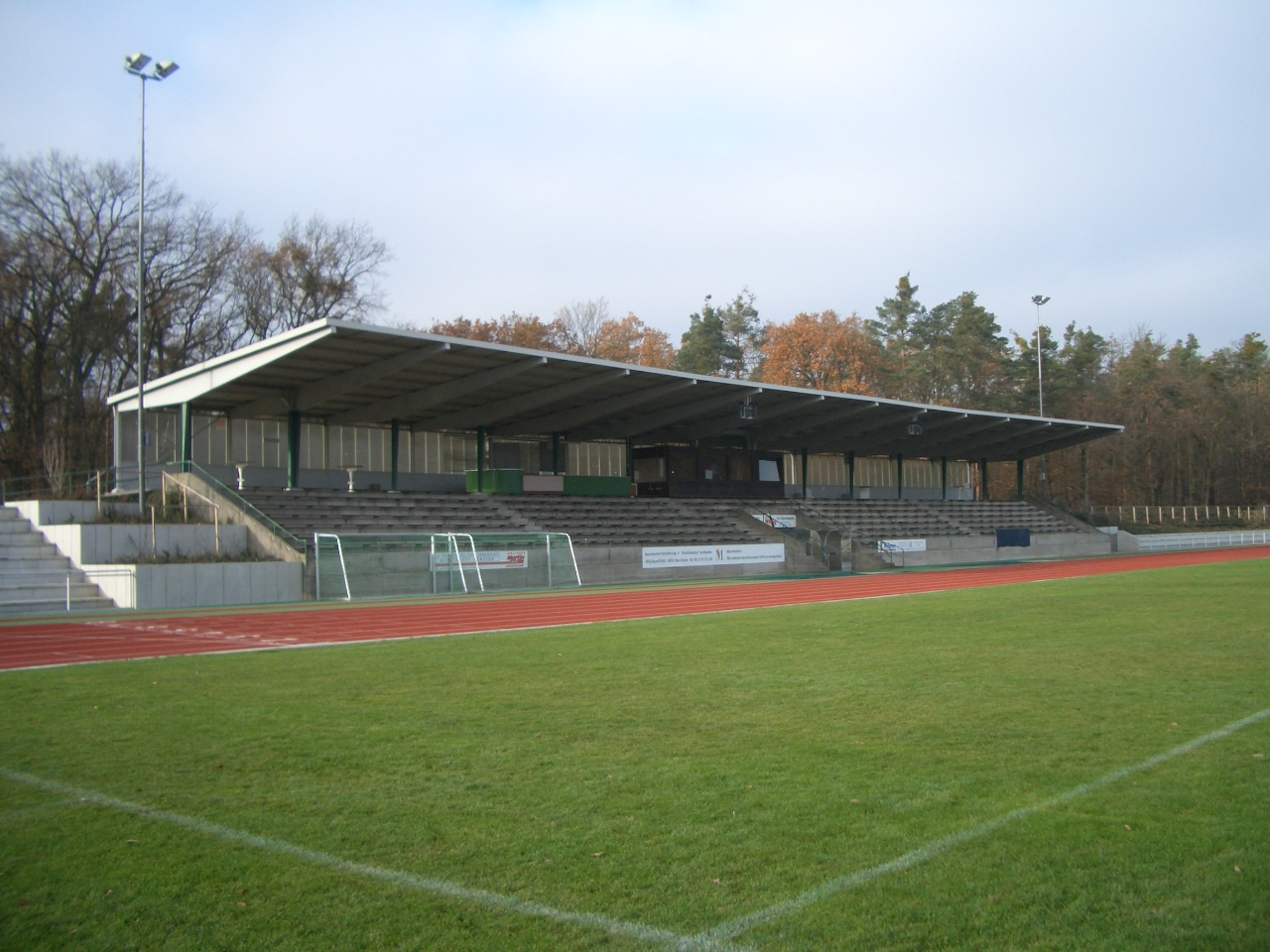 Waldstadion Viernheim